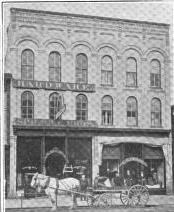 Sprague Hardware Store Greenville MI